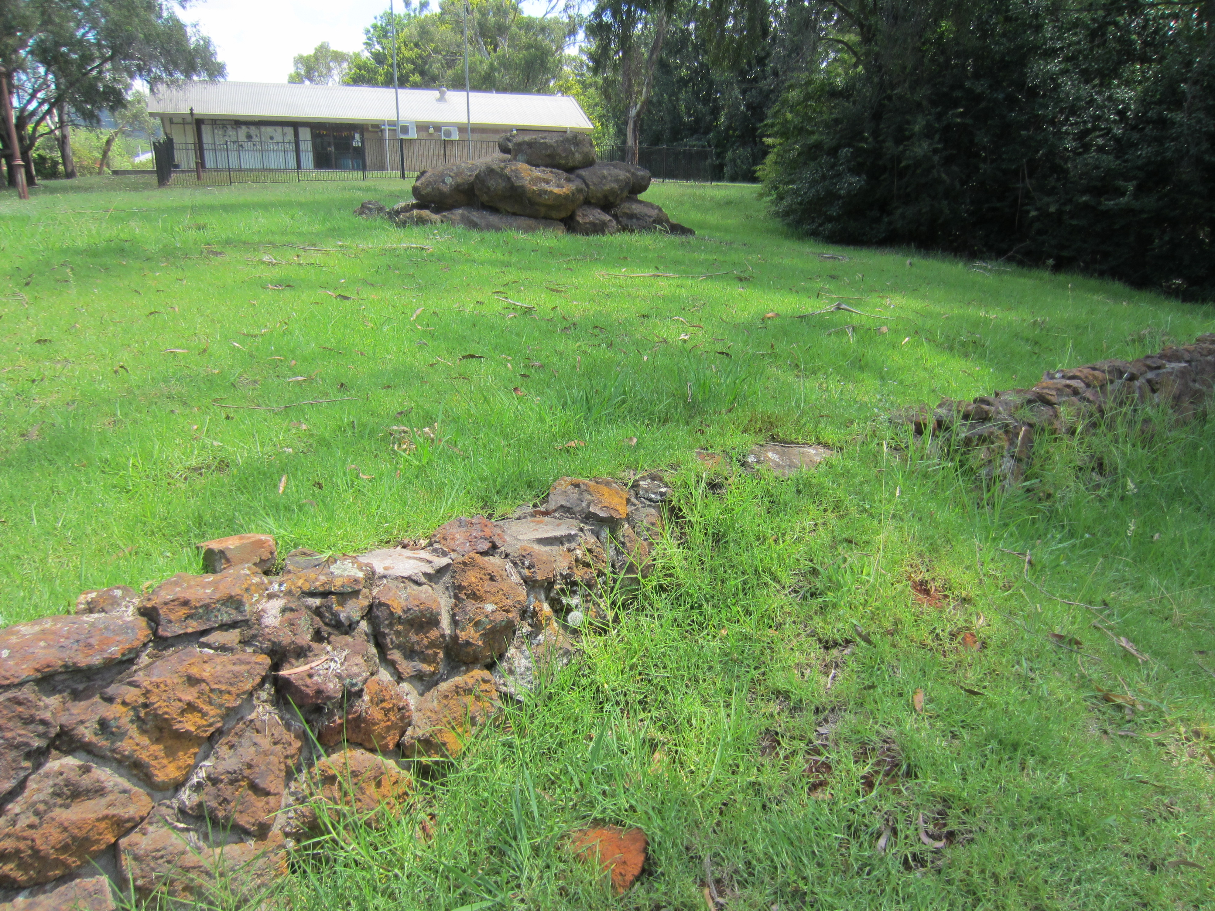 Wet ground and small mound of water saturated iron oxide near previous site of Chalybeate Spring.